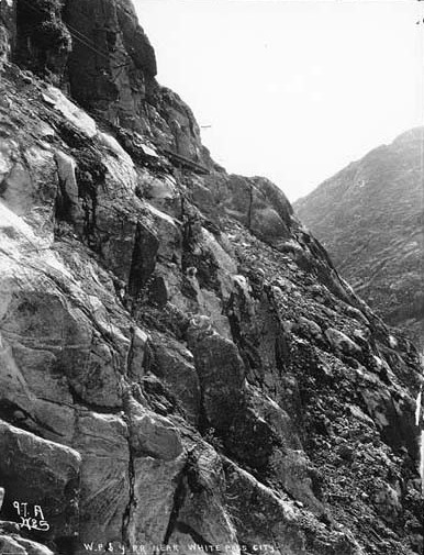 Caption on image: "W.P. & Y.R.R. near White Pass City." Original image in Hegg Album 3, page 37 . Original photograph by Eric A. Hegg B289; copied by Webster and Stevens 97.A. Subjects (LCTGM): Mountains--Alaska Subjects (LCSH): Mountain passes--Alaska